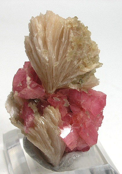 Bertrandite, Rhodochrosite Locality: Kounrad Massif, Balqash (Balkhash; Karatas; Prebalkhashie) Region, Zhezqazghan Oblysy (Dzezkazgan Oblast'; Dzhezkazgan Oblast'; Djezkazgan Oblast'; Jezkazgan Oblast'), Kazakhstan (Locality at ) This is a superb piece in every way - both for quality of the large bertrandite crystals and for their aesthetic arrangement on matrix. It is quite a significant piece, even aside from pedigree. 4.7 x 2.7 x 2.6 cm This Photo was Photo of the Day - 11th Feb 2009